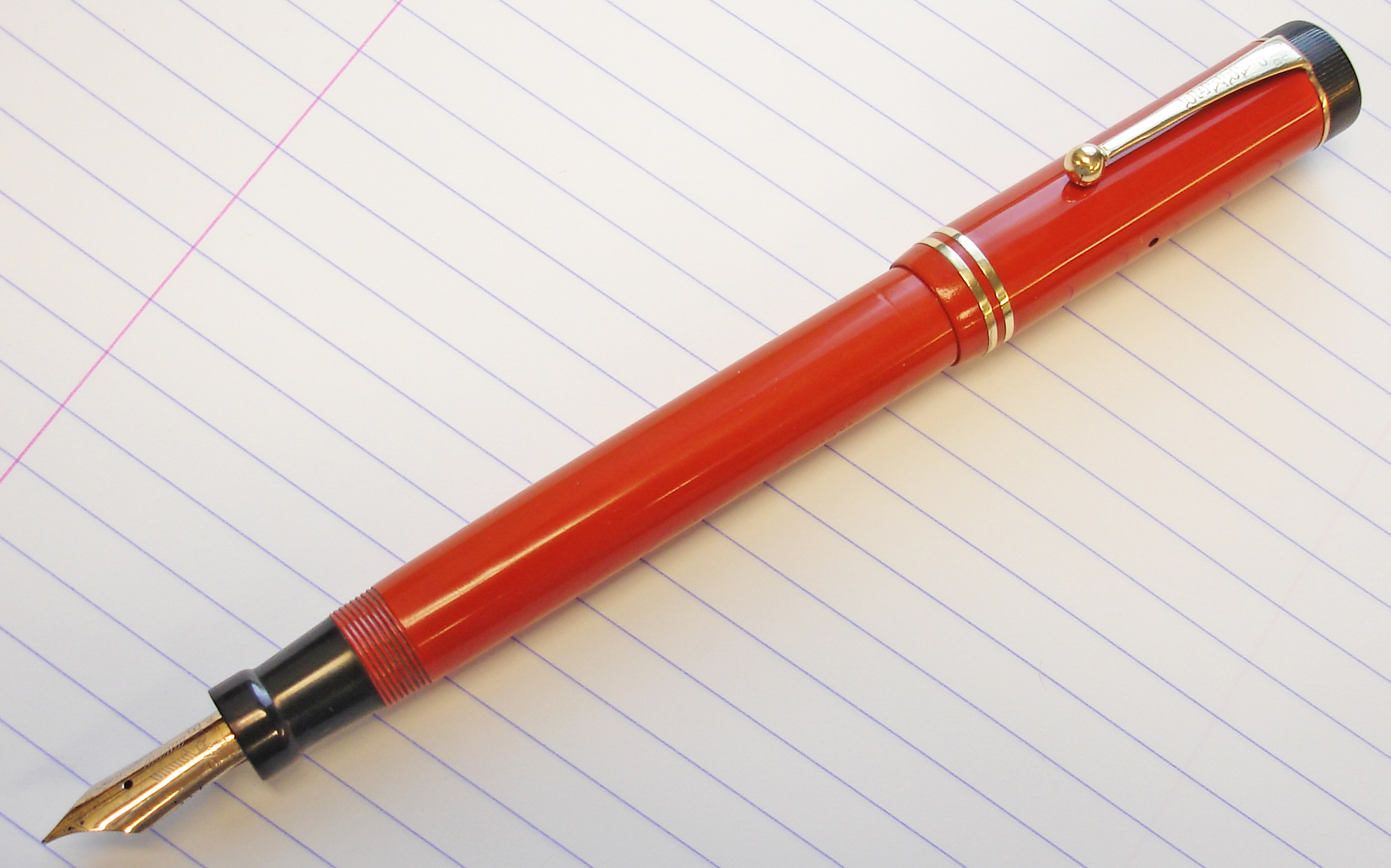 A Parker Duofold Senior "Big Red" ca. 1928 with later replacement arrow nib